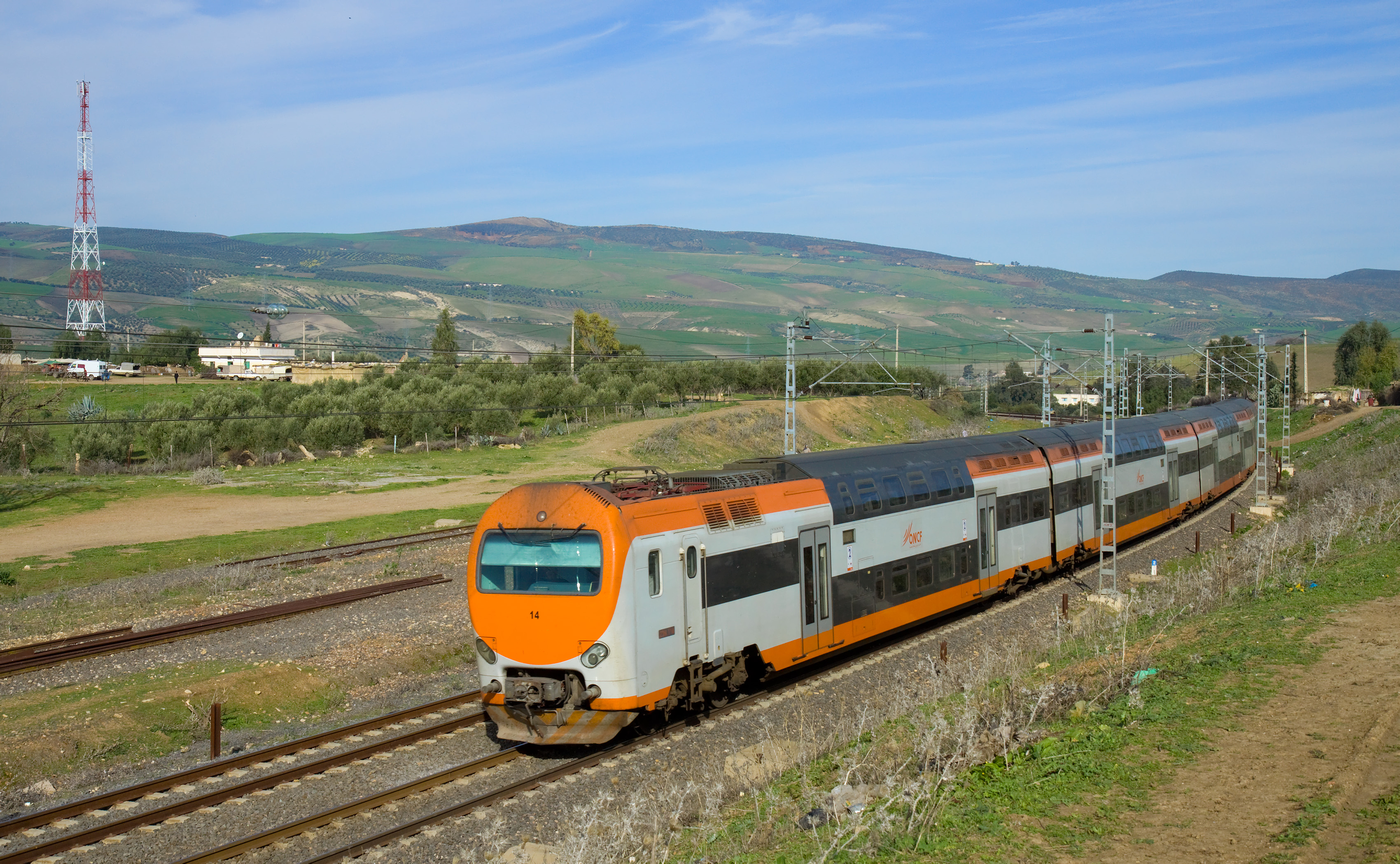 ONCF Z2M double decker train, similar to FNM class EA 761, on the line from Sidi Kacem to Meknès.